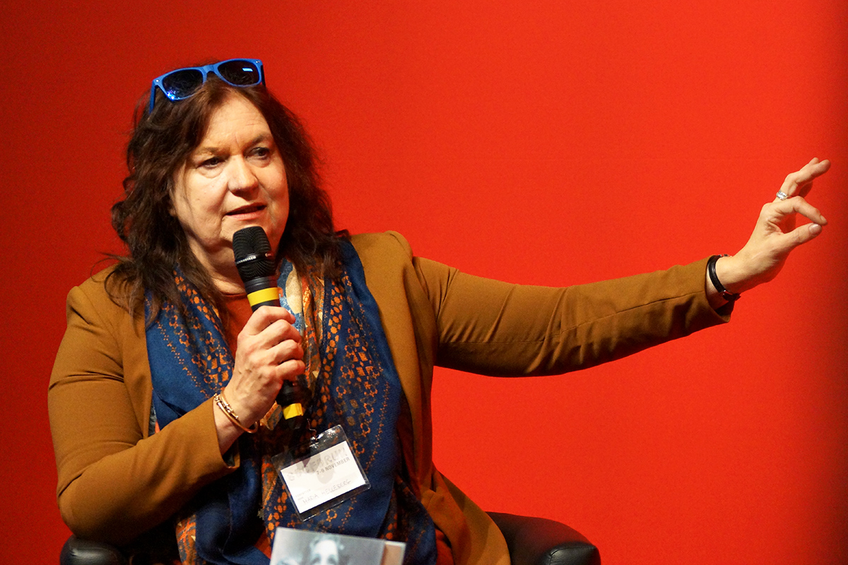 Maria Helleberg - Danish writer at the Copenhagen Book Fair "BogForum 2014", Copenhagen, Denmark